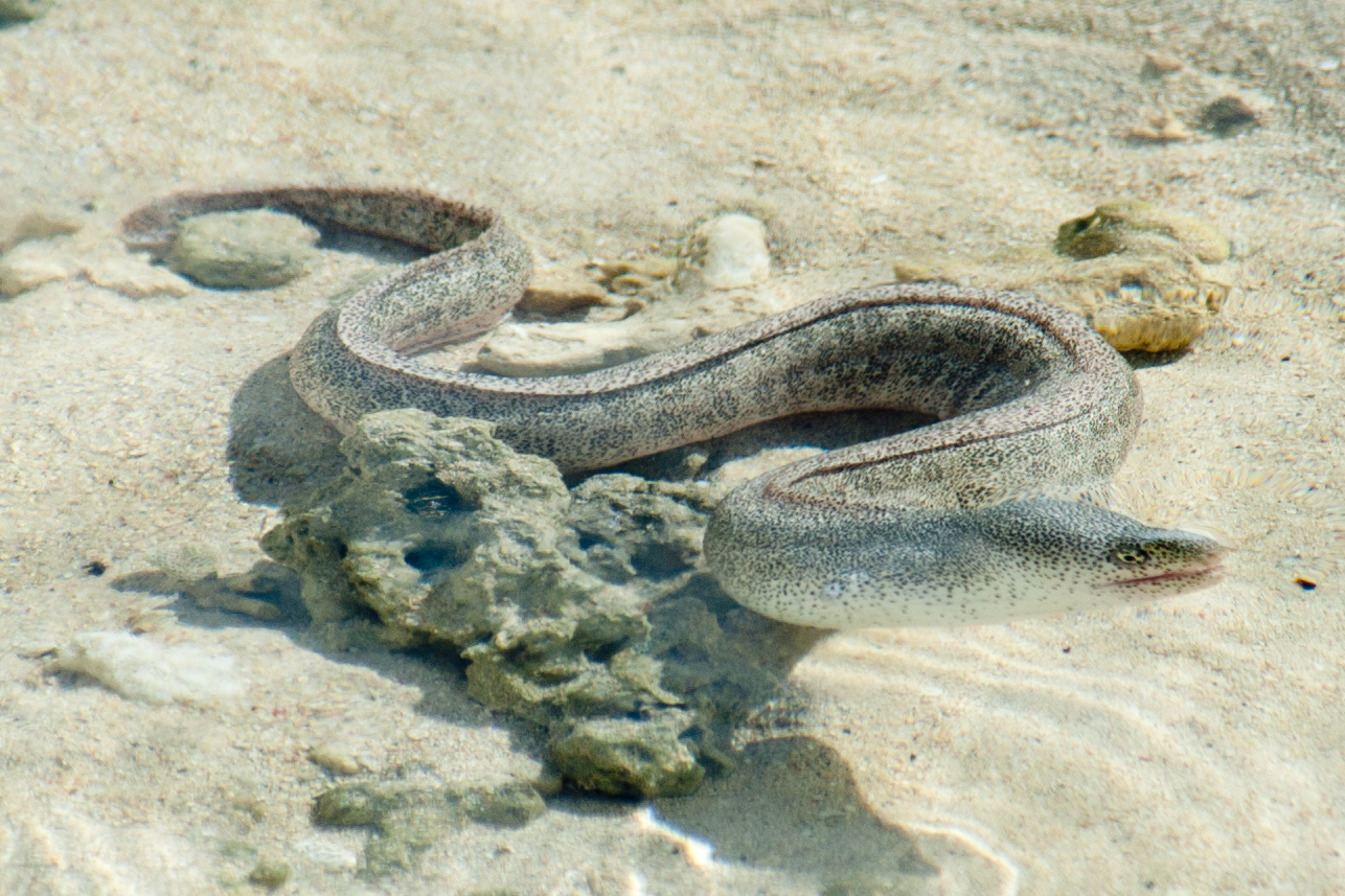 peppered moray Gymnothorax pictus